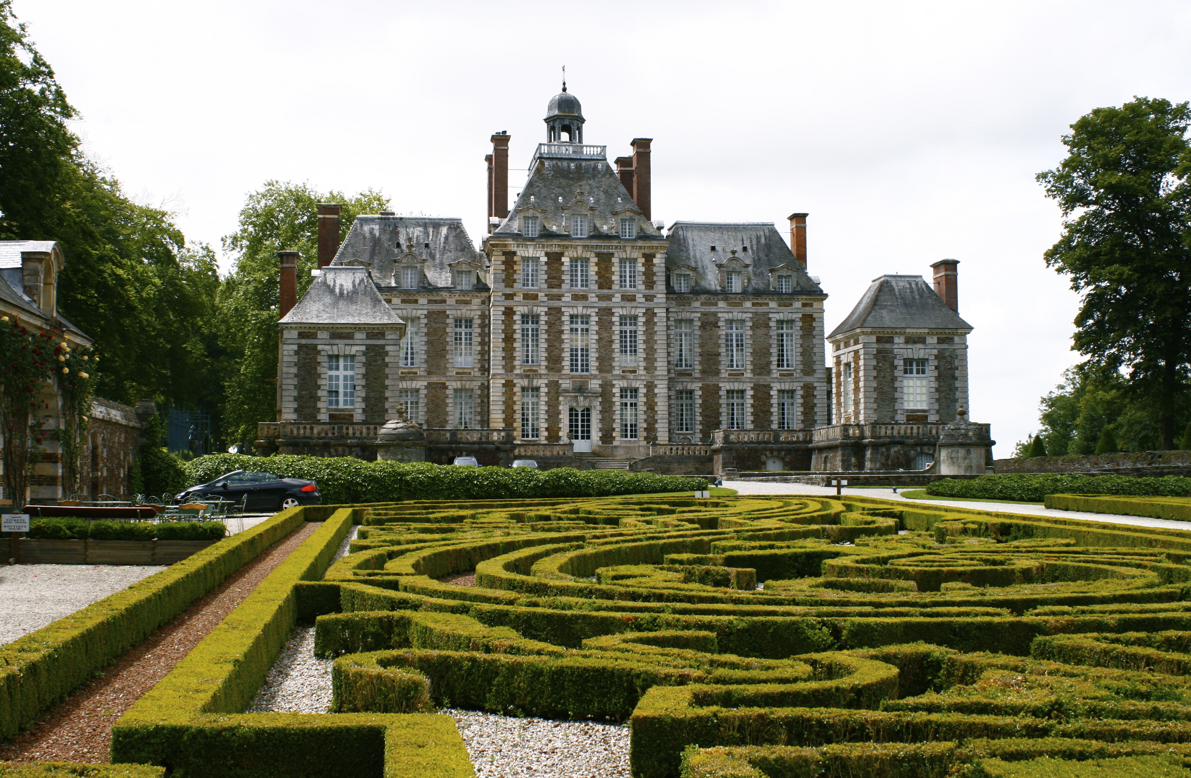 This is a picture of the Chateau de Balleroy, which currently belongs to the Forbes family. It was taken on a tour there on June 2007.